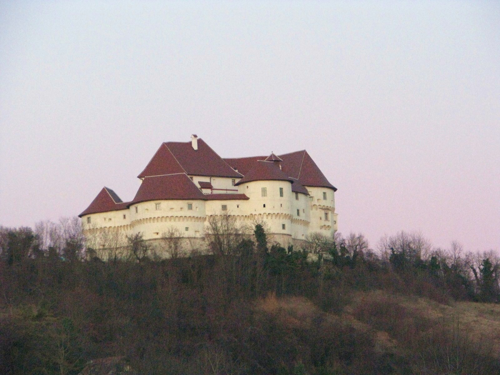 Veliki Tabor Castle